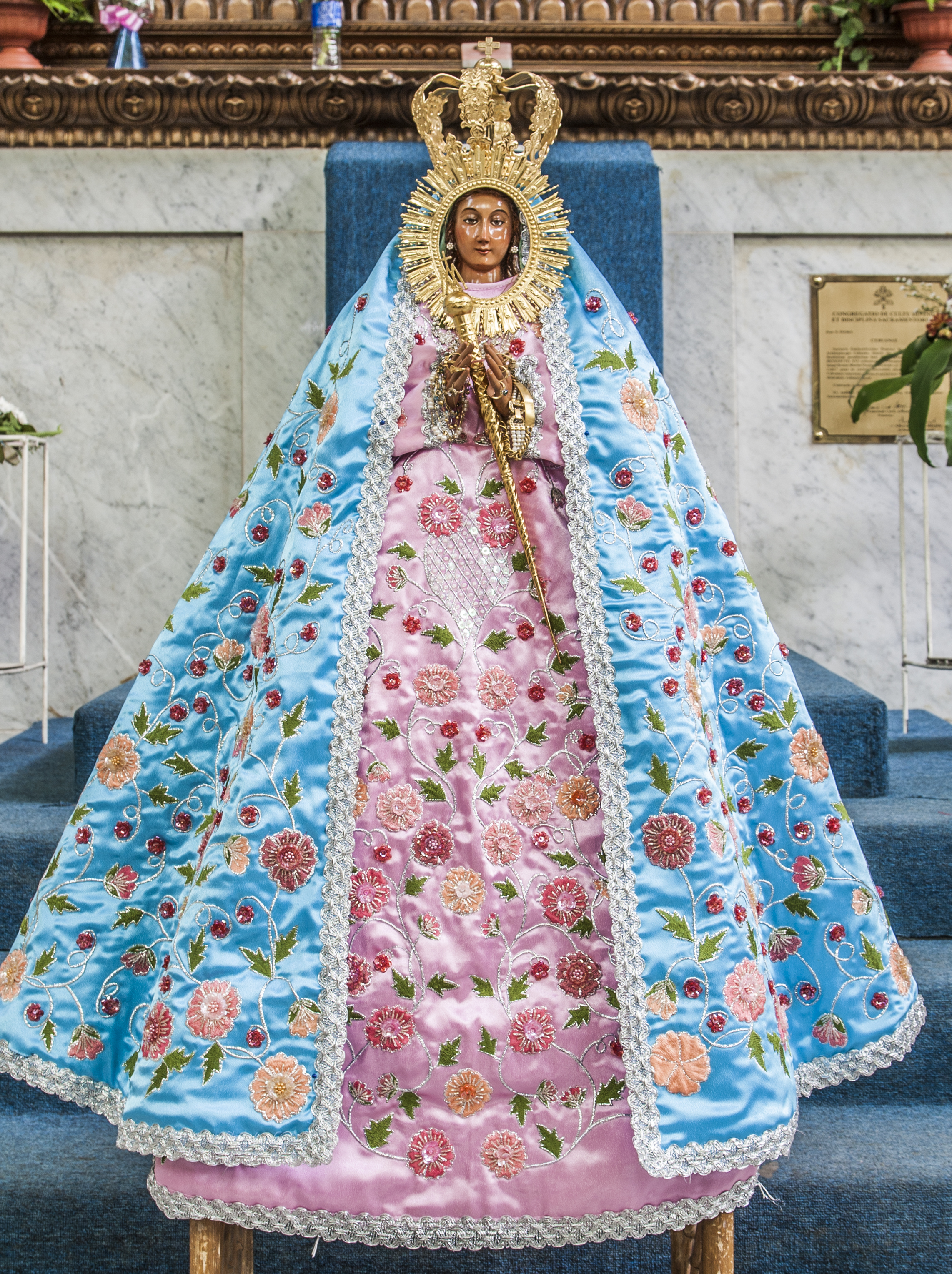 Original image of Guadalupe de Cebu